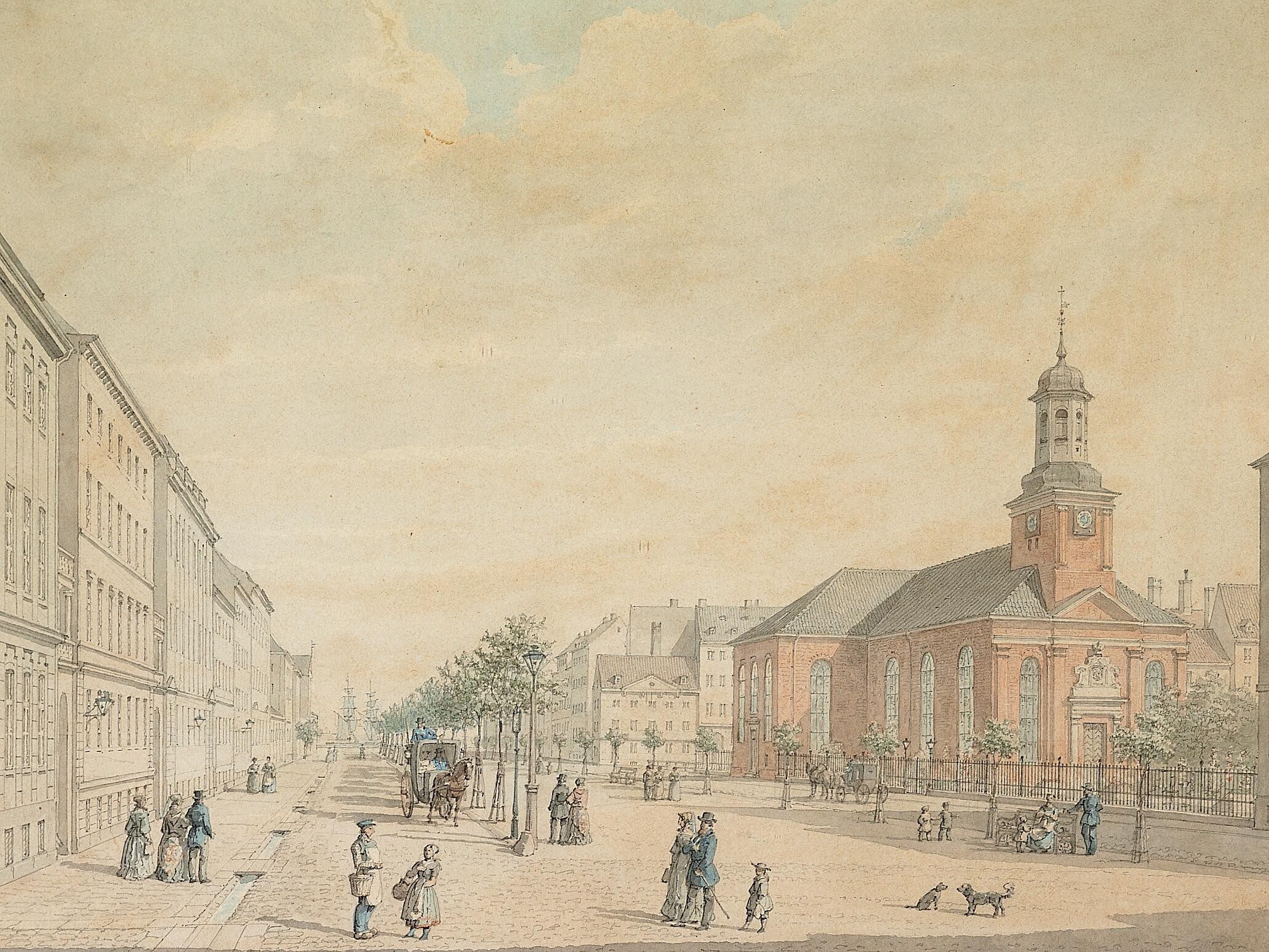 Sankt Annæ Plads with the Garnisons Church seen from Bredgade. Watercolour painted by Heinrich Gustav Ferdinand Holm (1803-1861